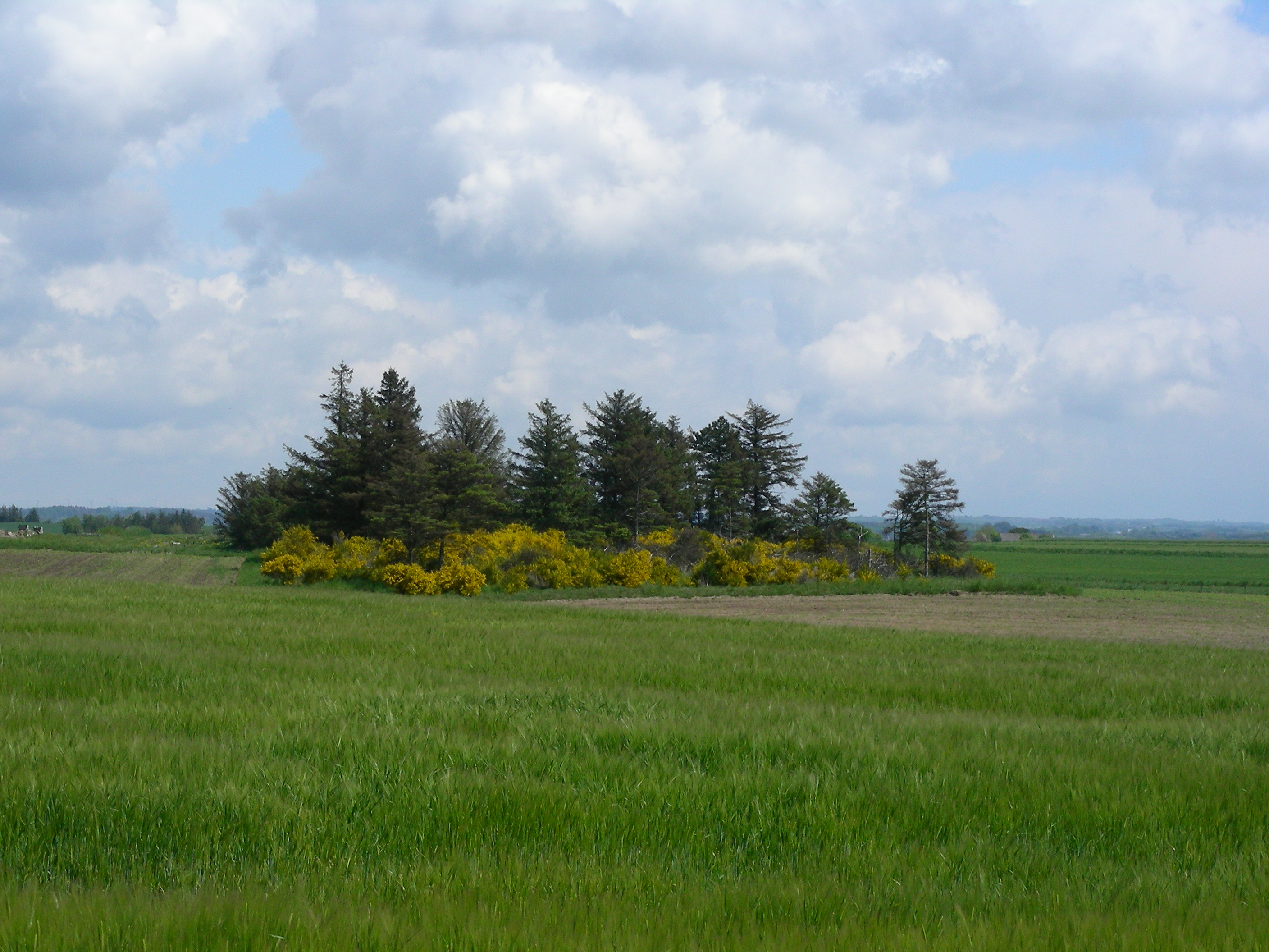 Prinsehøj Baagø